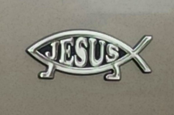 This variation of the Jesus fish (Ichthys) promotes evolutionary creation, also known as theistic evolution. I purchased it from The BioLogos Foundation, a Christian organization that propagates the harmony of faith and science. I added this Jesus fish to my 2005 Ford Focus ZX4 and took this photo on 10/20/2014.